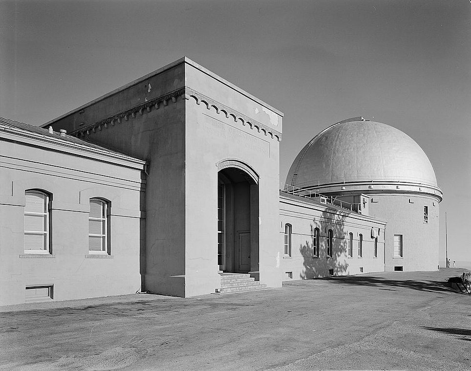 Lick Observatory: Partial view of west front, looking south